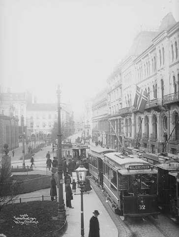 Kristiania Sporveisselskab trams at Anthenum in Oslo, Norway